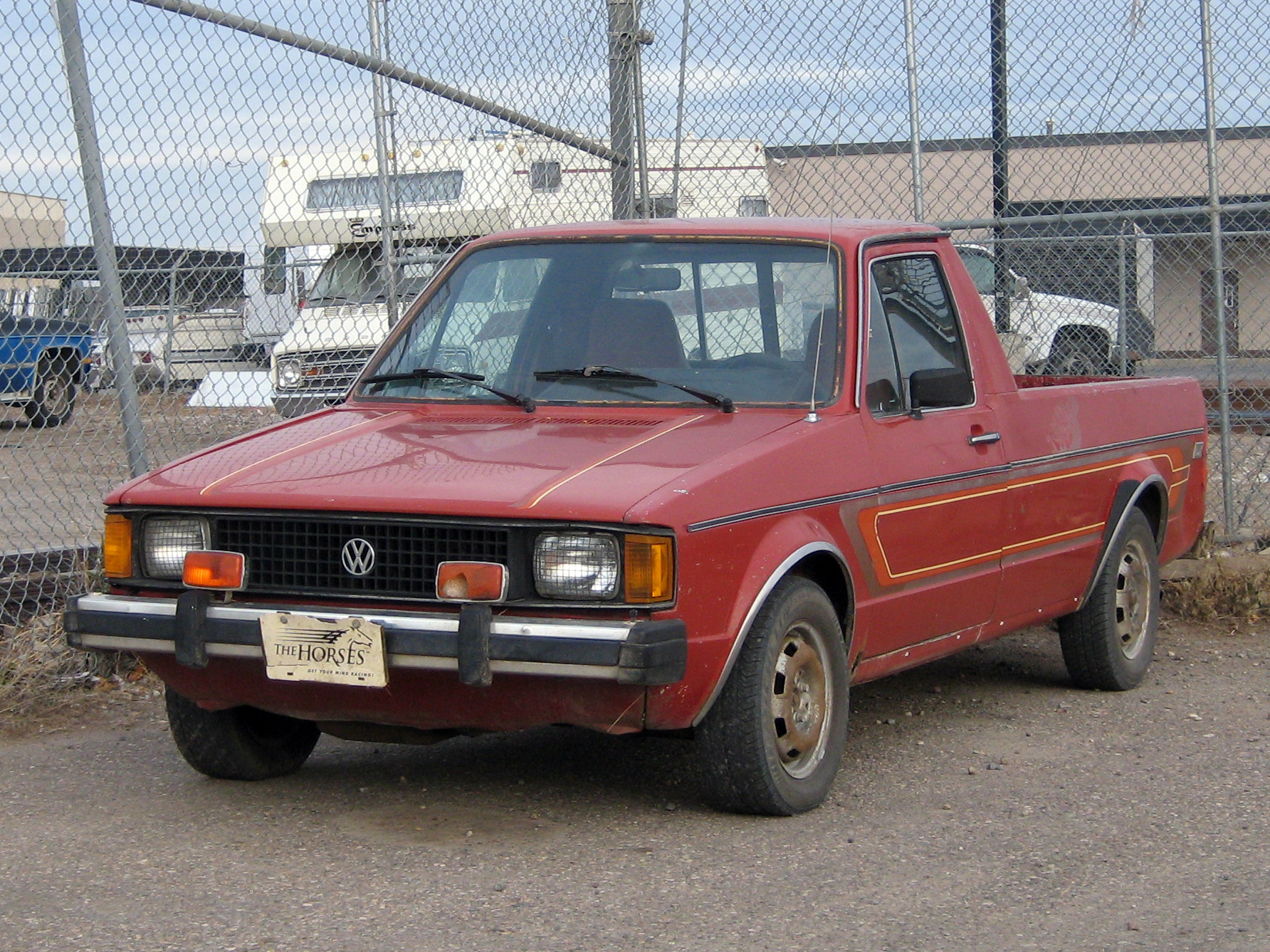 VW Rabbit Pickup (Caddy)